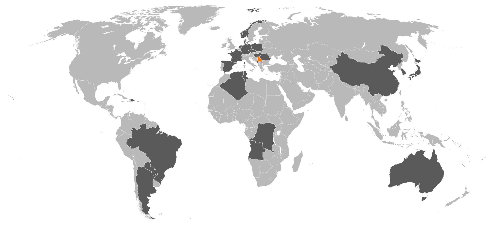 Derived from File:BlankMap-World8.svg